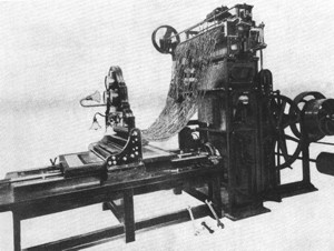 The automatic loom with patents of Jan Szczepanik (Polish inventor).